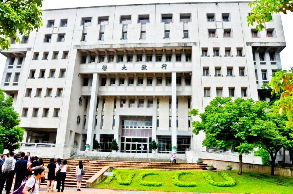 Administration Building of National Chengchi University